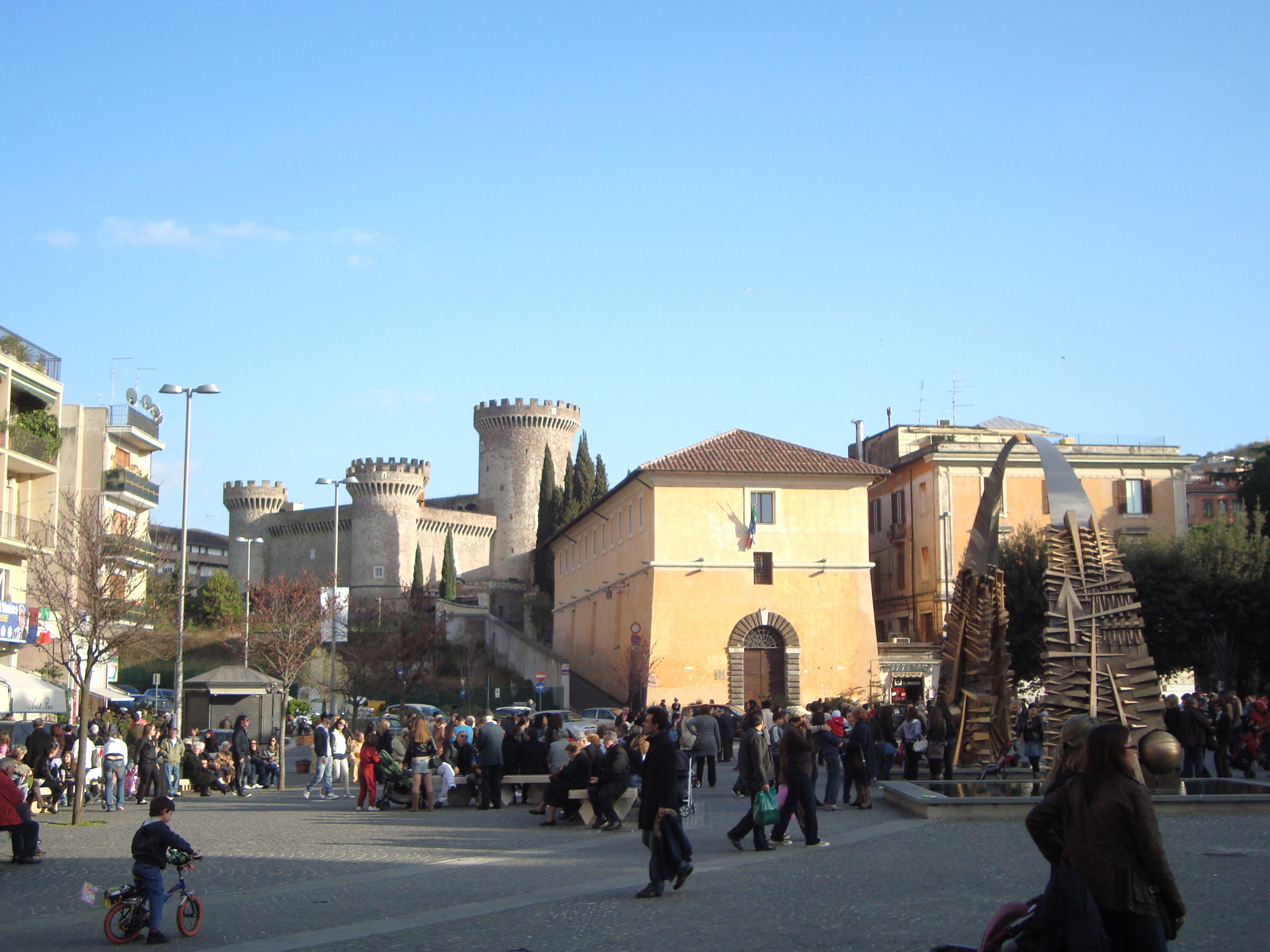 View of the Piazza Garibaldi in Tivoli with the Rocca Pia fortress in the back and the Arnaldo Pomodoro's Arch on the right